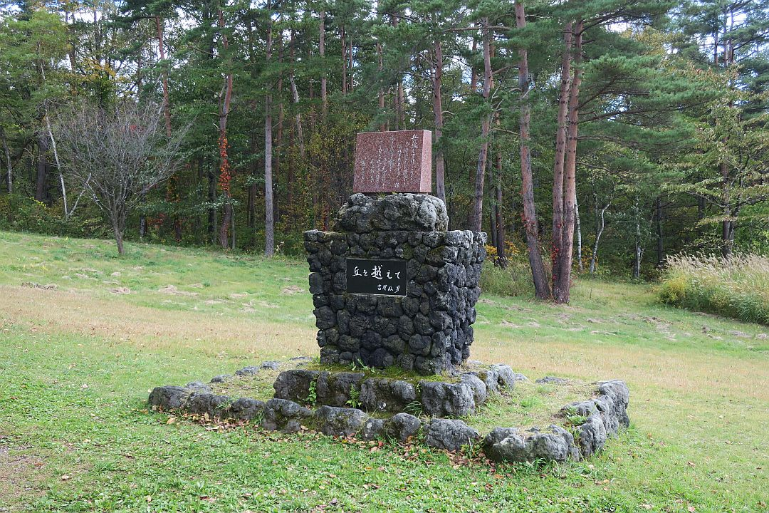 Asama Dairy Farm (Naganohara, Gunma) Oka-wo-koete monument.